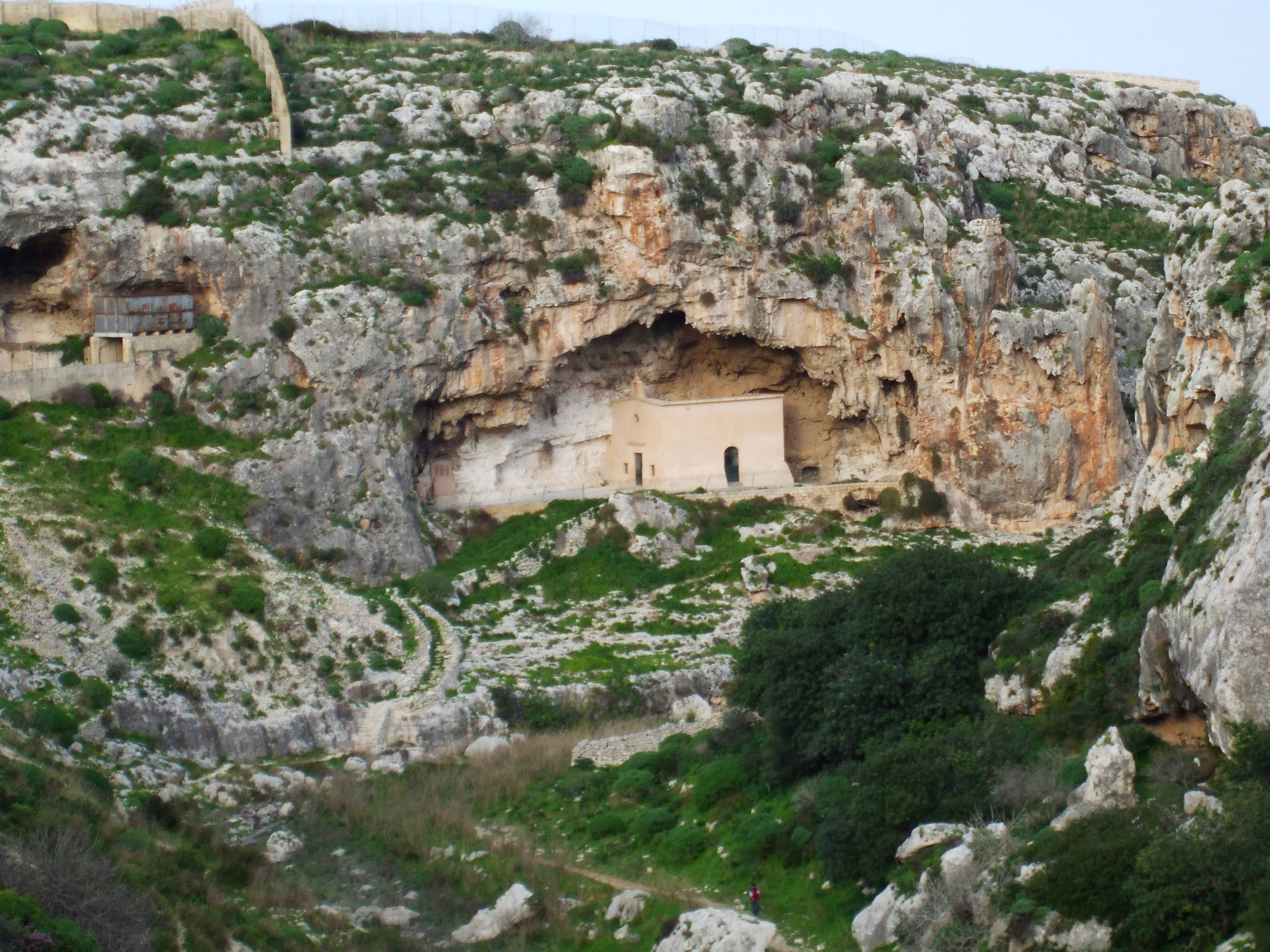 Chapel of St Paul The Hermit, Wied Il-Ghasel, Mosta